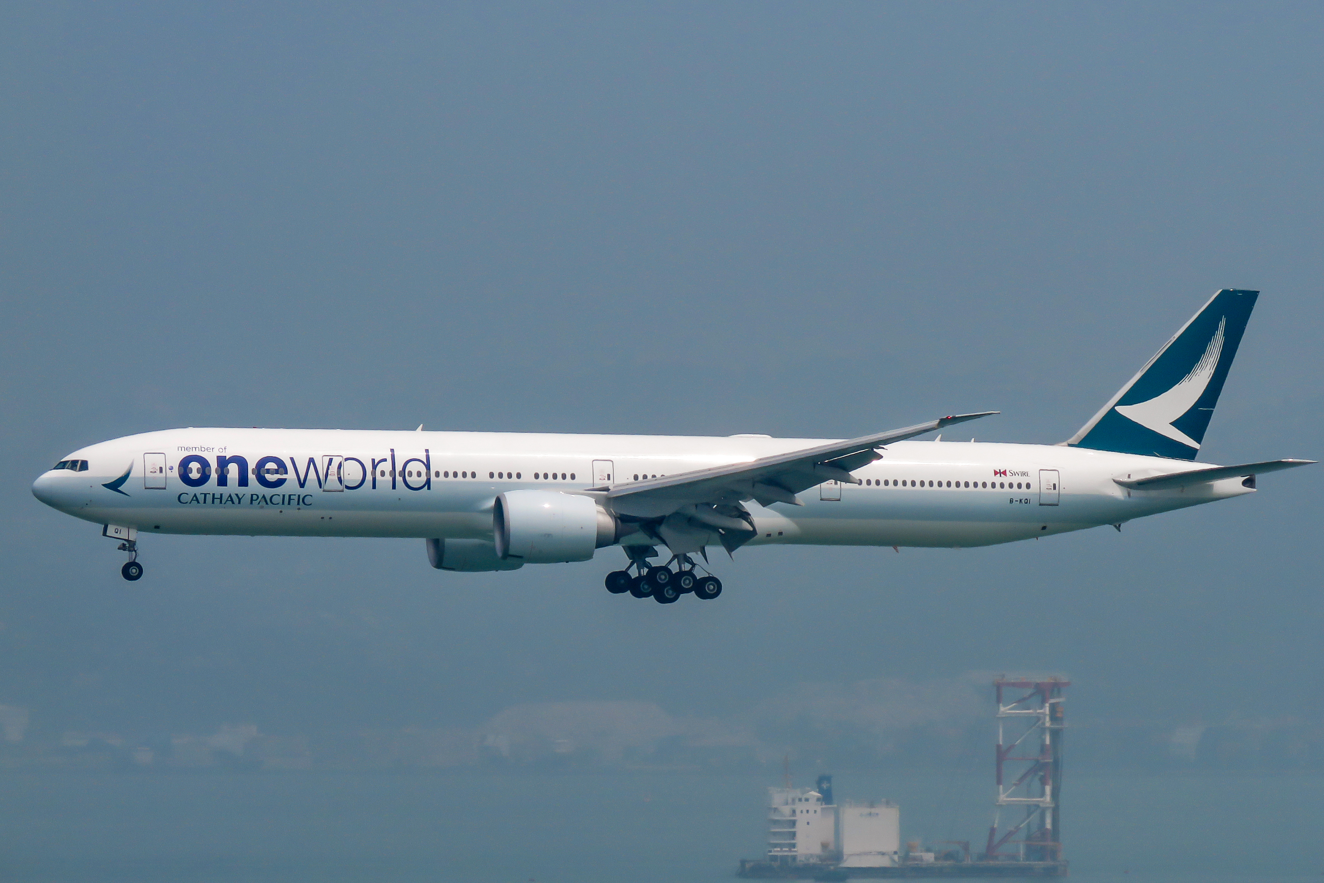 Cathay 403 from Taipei, having just been repainted in Oneworld livery in a few days.